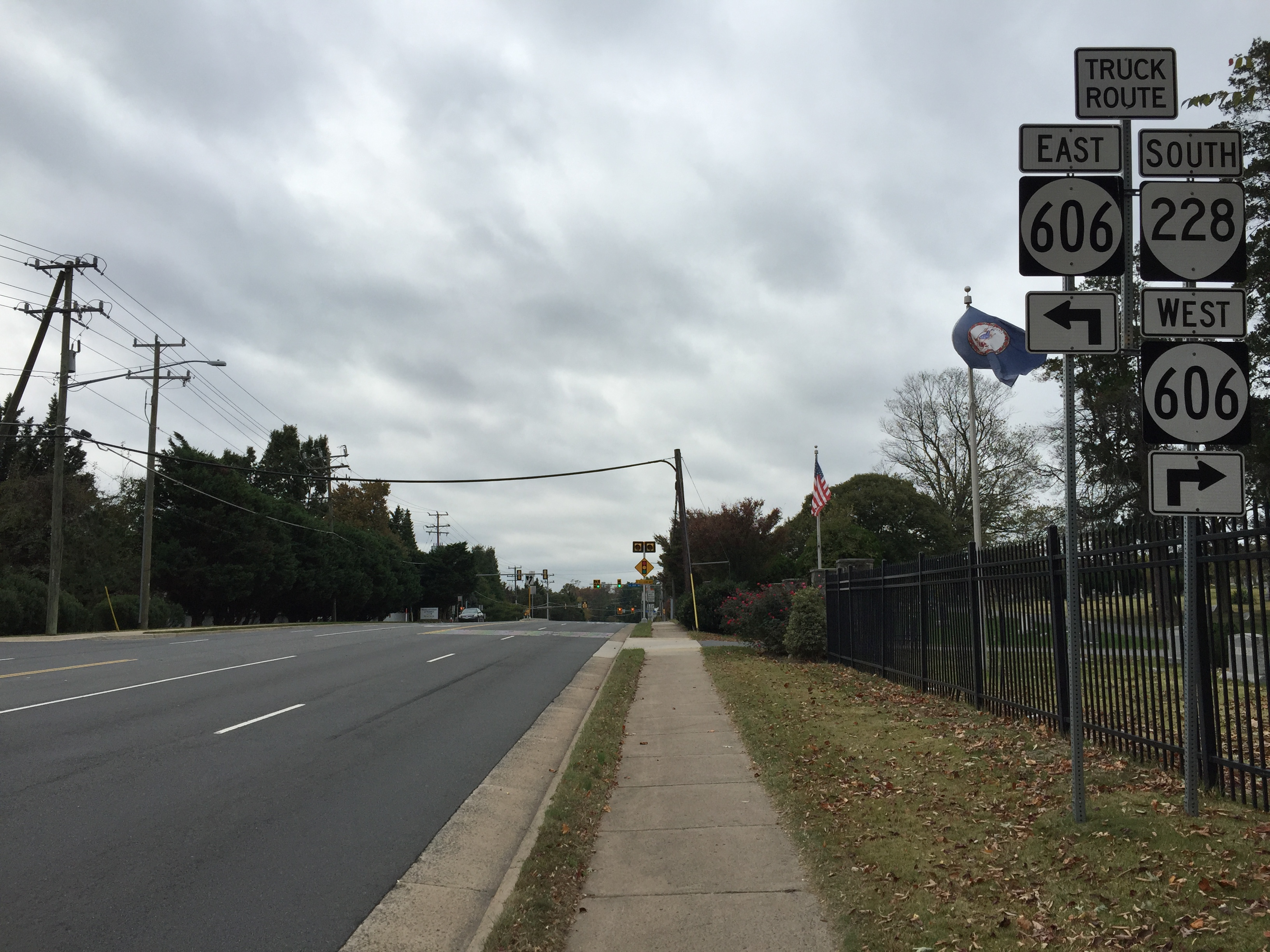 View south along Virginia State Route 228 (Dranesville Road) between Bennett Street and Old Hunt Way in Herndon, Fairfax County, Virginia